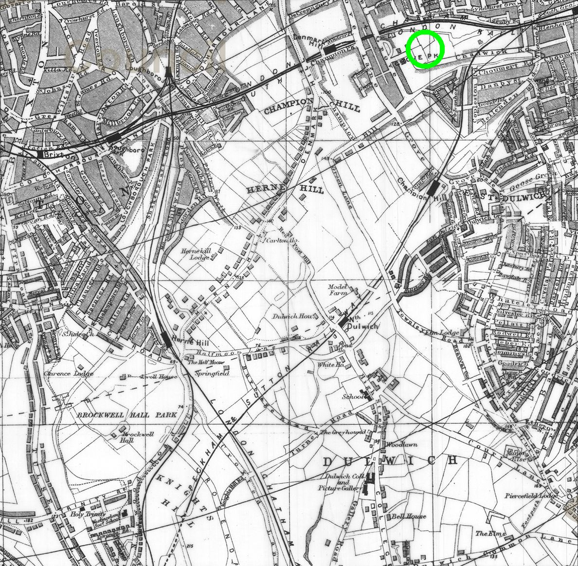 Old map (1888) of London with Denmark Hill Y Station of 1930's and 1940's highlighted (green circle)